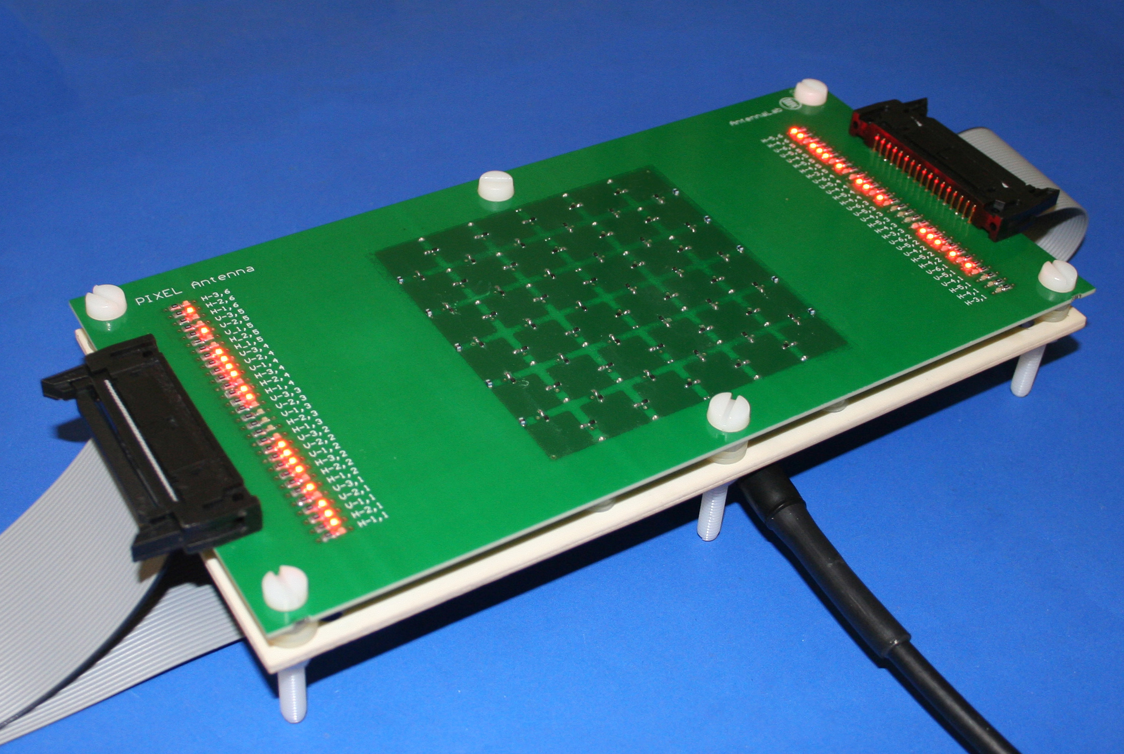 Reconfigurable pixel antenna with the capability of simultaneously reconfiguring its operating frequency, radiation pattern and polarization.